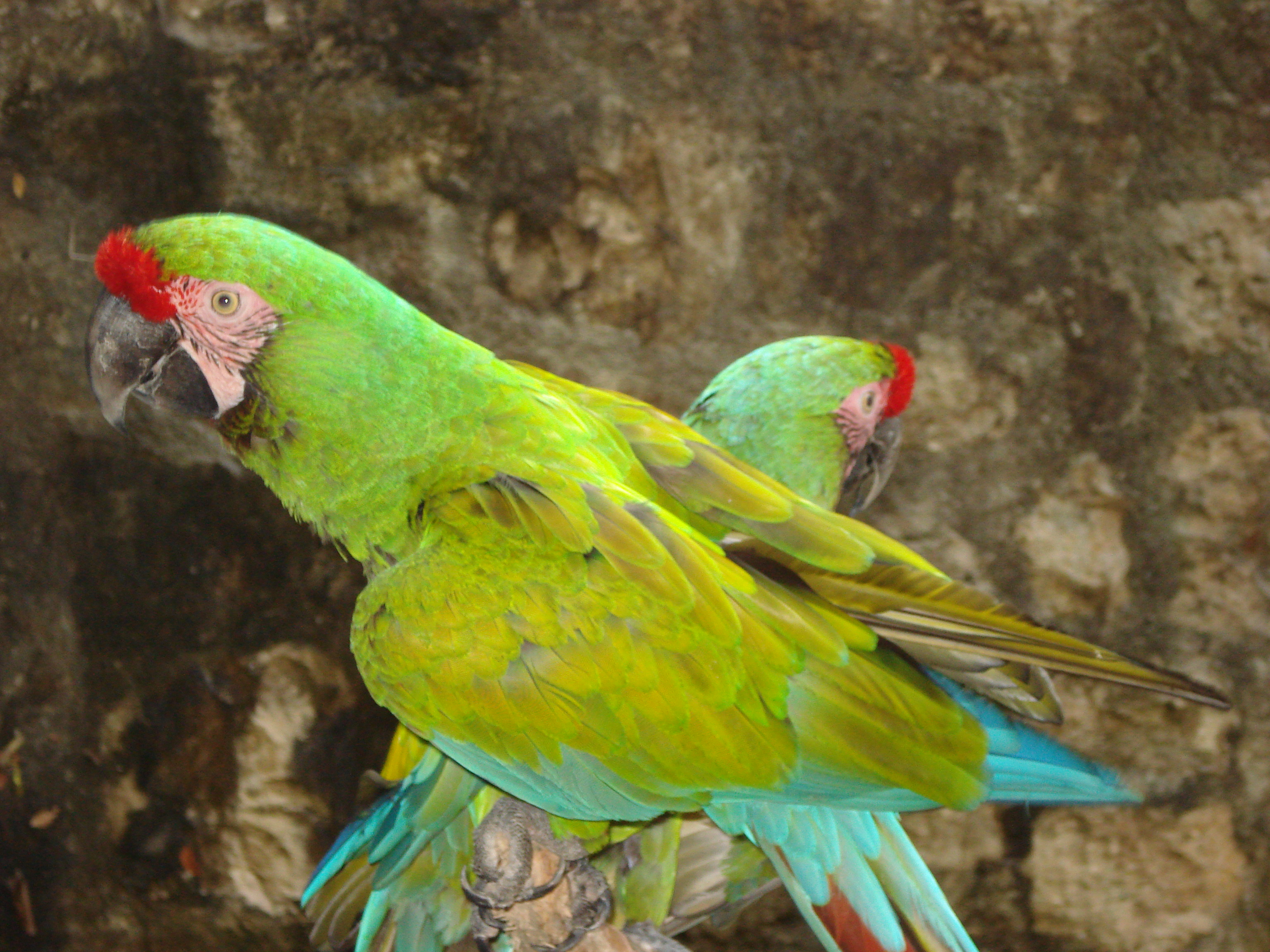 Military Macaws in Mexico.